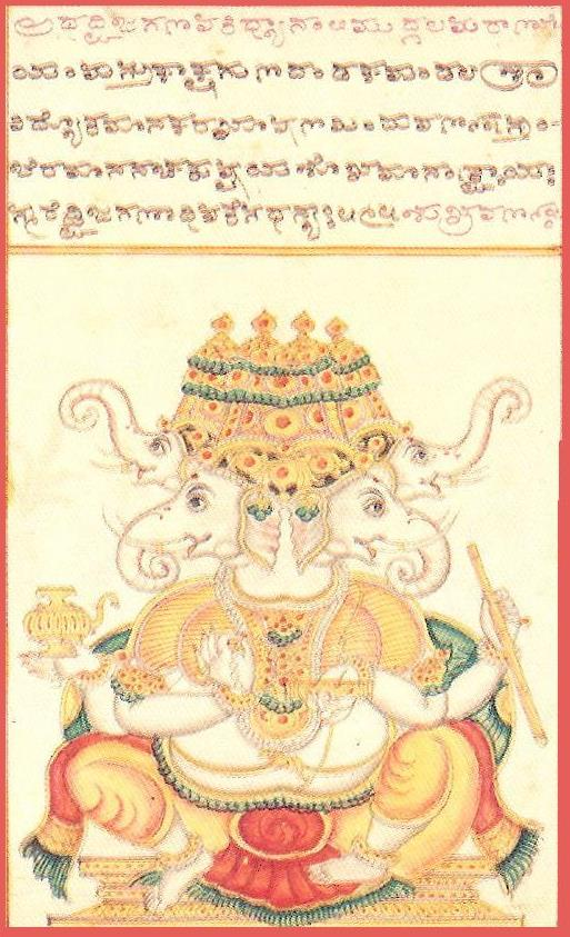 Reproduction from the Śrītattvanidhi ("The Illustrious Treasure of Realities"), an iconographic treatise compiled in the 19th century in Karnataka, India, by order of the then Maharaja of Mysore, Krishnaraja Wodeyar III (b. 1794 - d. 1868).